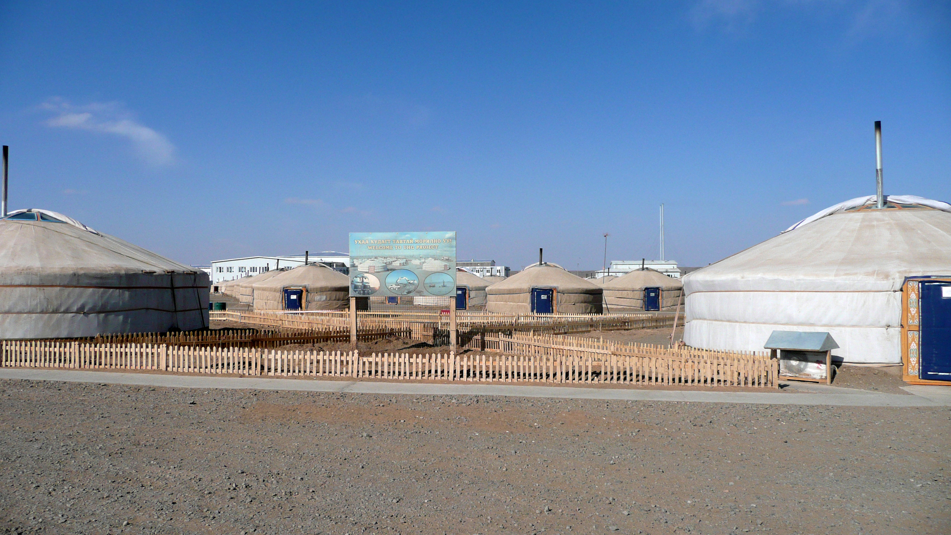 Energy Resources LLC, UHG Ukhaa Khudag Project in Tavan Tolgoi